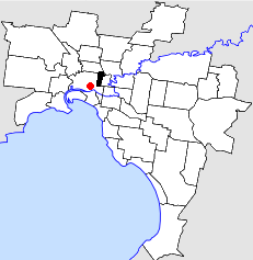 Location of the City of Fitzroy within Melbourne (due to its small size, black has been used instead of green)